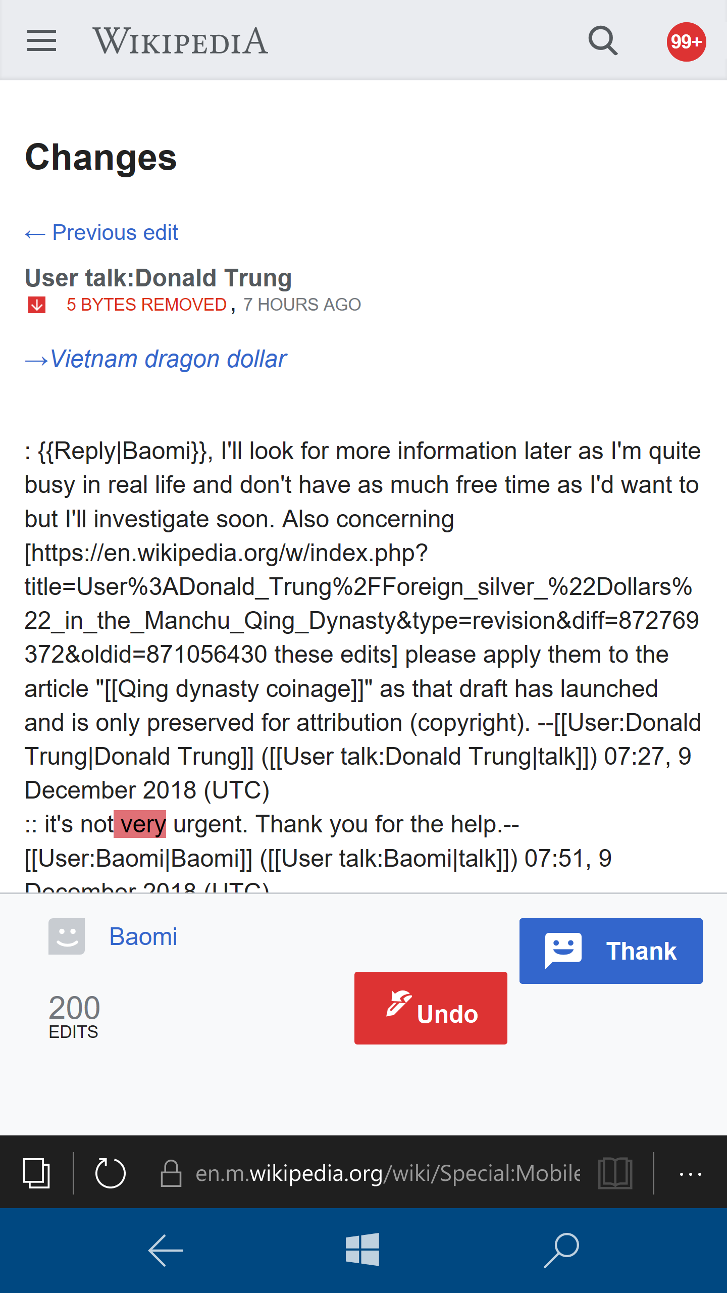 A manually added "Undo button" from User:FR30799386/undo that appears to work.